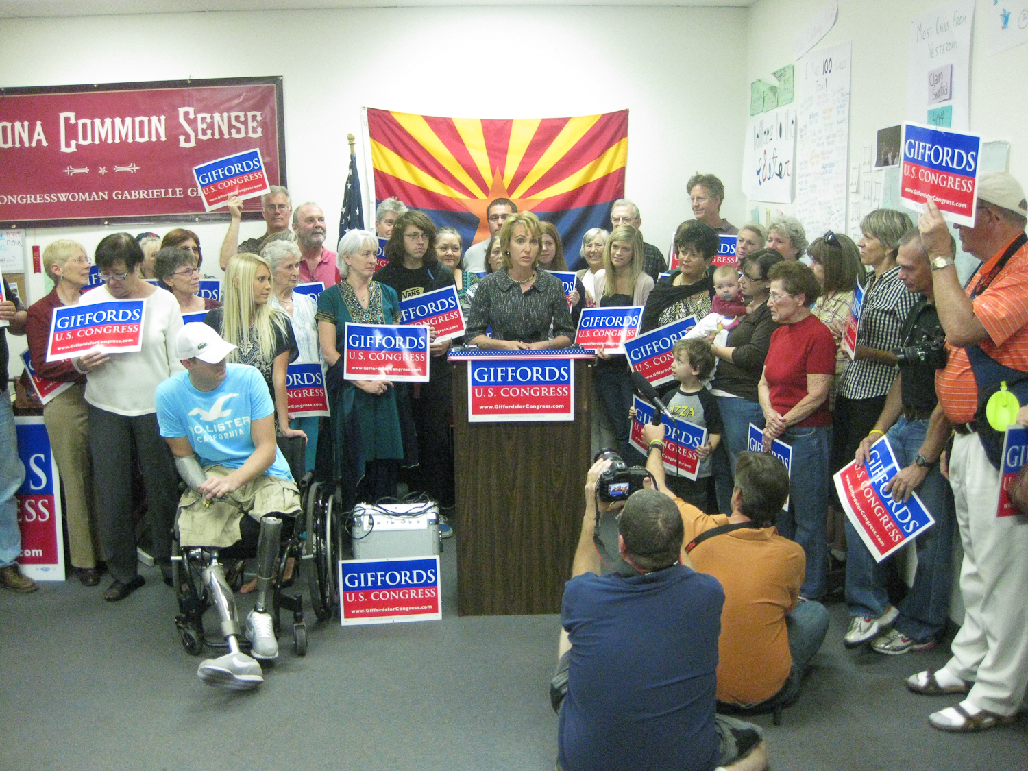 Gabrielle Giffords during a press conference held after her 2010 election victory